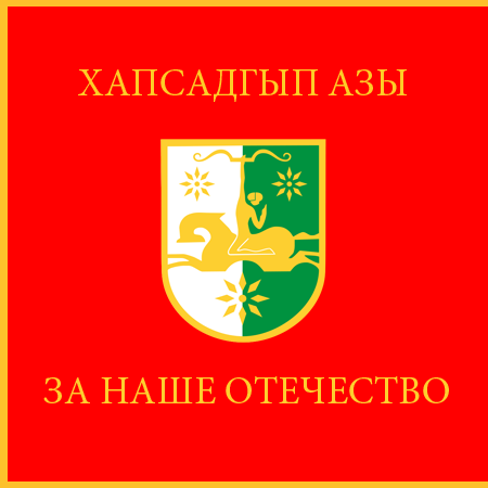 Flag of the armed formations of self-proclaimed Republic of Abkhazia